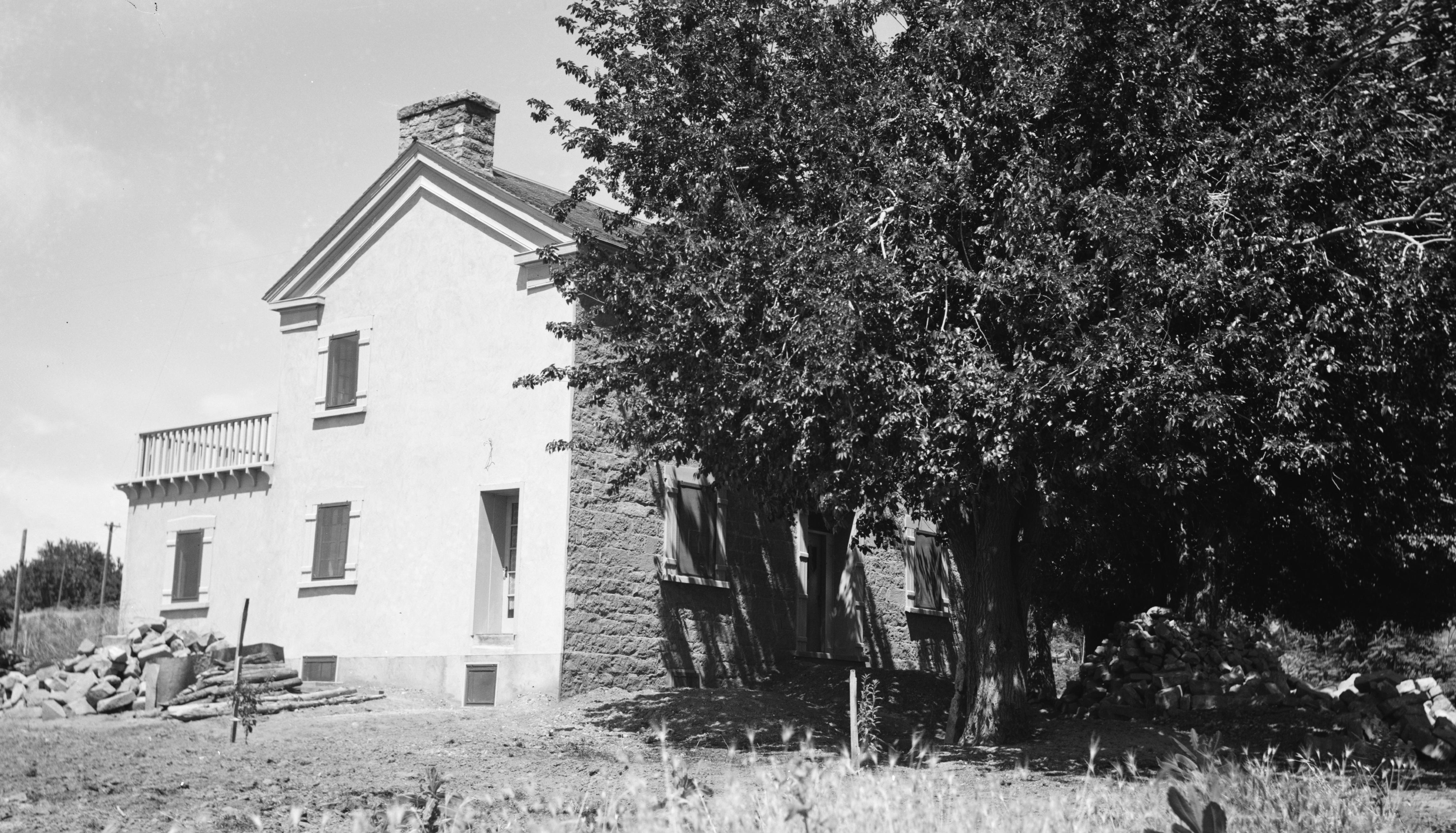 Exterior of the Robert D. Covington House, located at 200 N. 200 East in Washington, Utah, United States. Built in 1859, it is listed on the National Register of Historic Places.